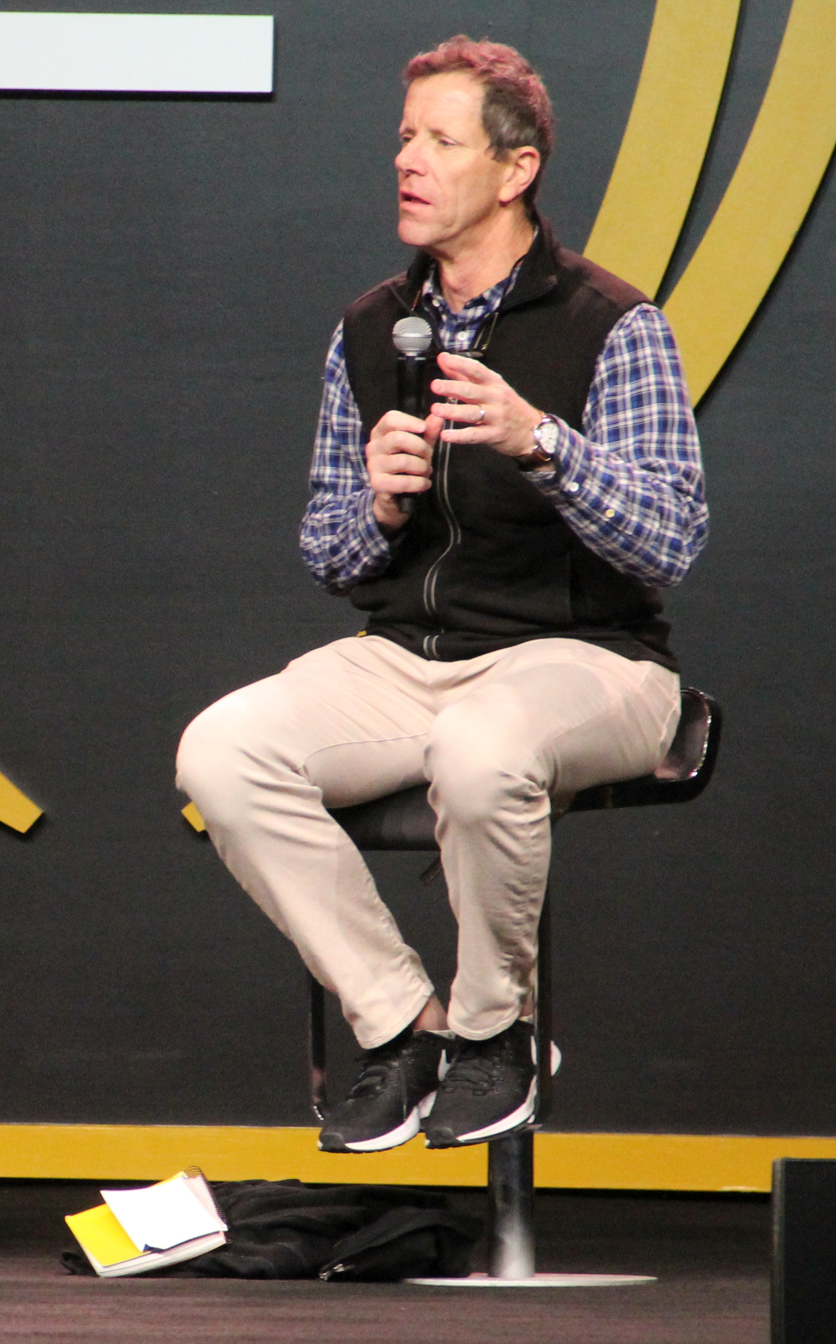 Joel Anderson and Ivan Maisel at the 2018 College Football Playoff National Championship Playoff Fan Central